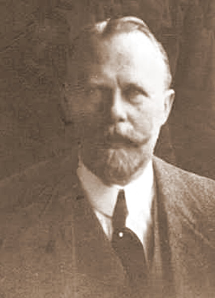 Theodore Dietrich Garbade, President of the Union of Manufacturers of Cigars of Cuba and Banker, at Mount Kisko ,New York, 1916